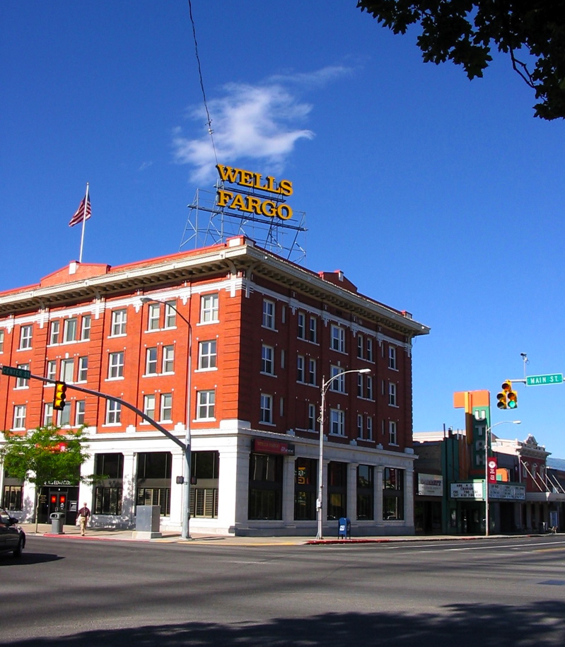 Wells Fargo building, corner of Main Street and Center Street, looking southwest, Logan, Utah. taken by me, August 5, 2006